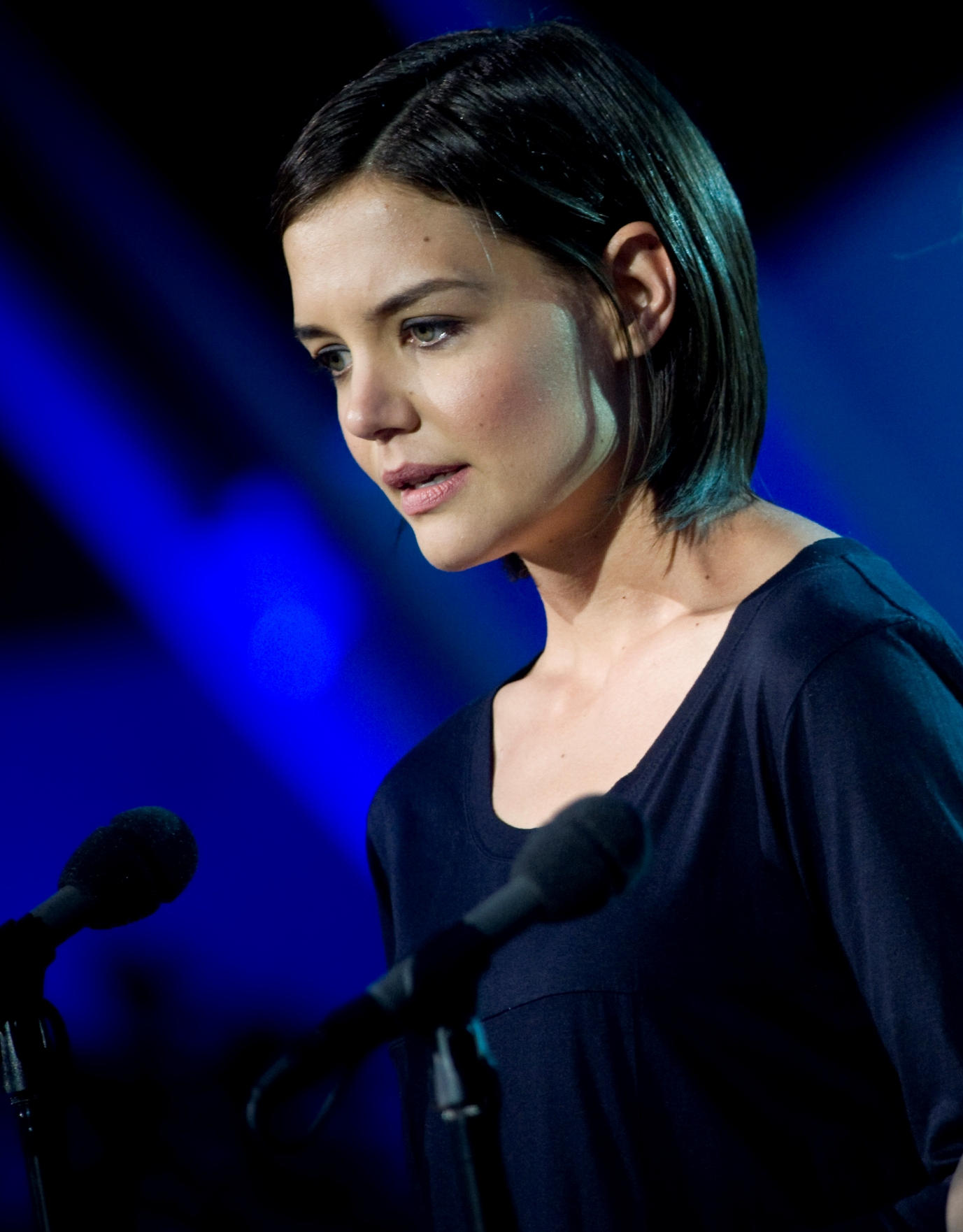 The Actress Katie Holmes at the National Memorial Day Concert in Washington, D.C., May 24, 2009.